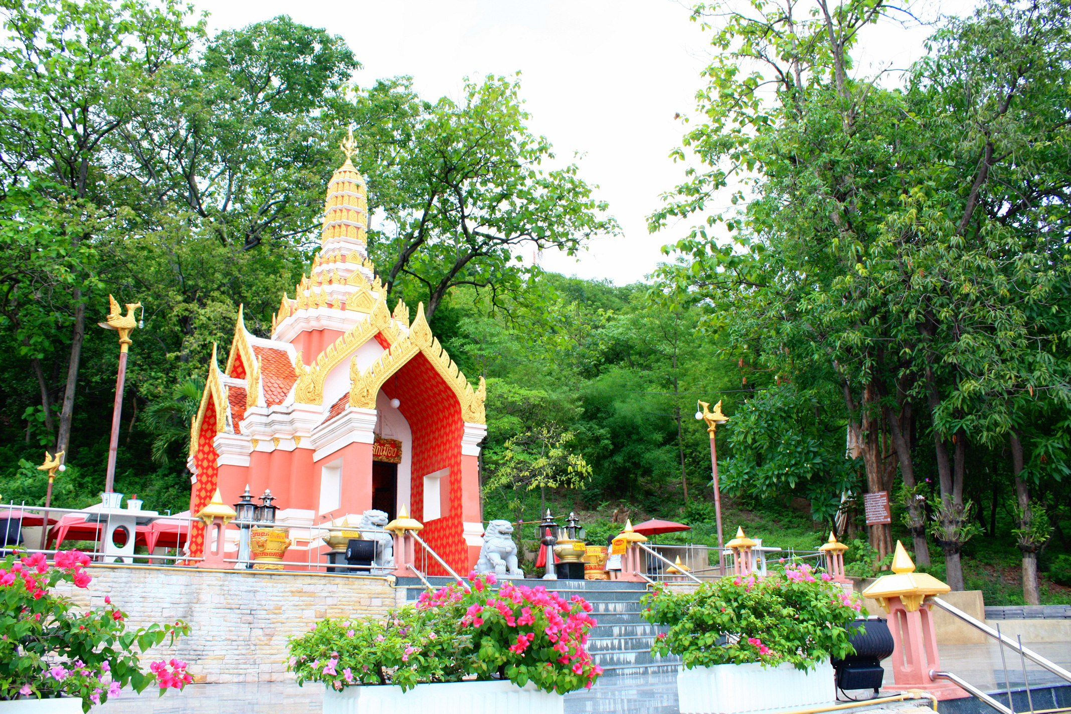 Sao Lak Mueang Nakhon Sawan (City Pillar Shrine)